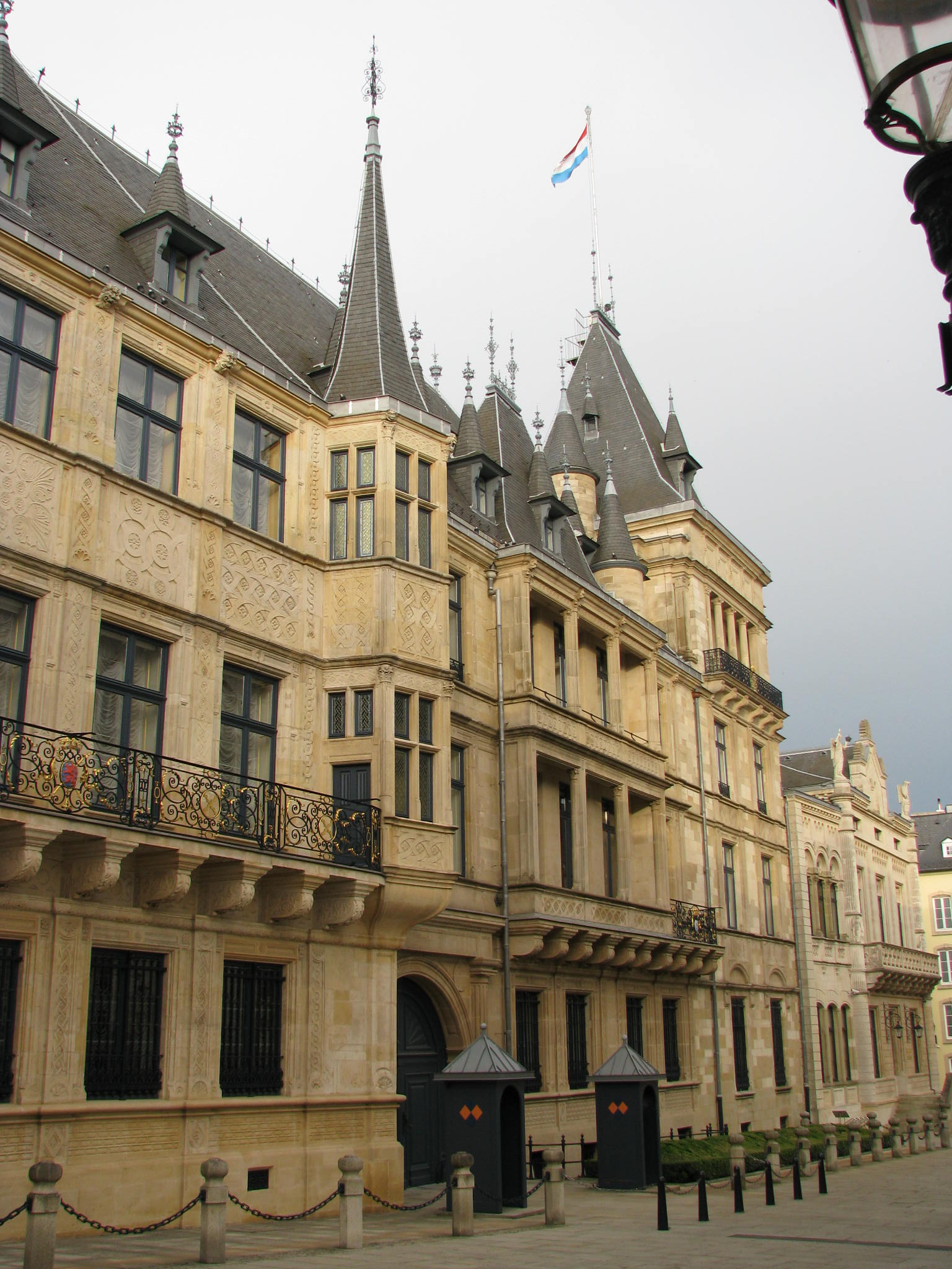 Grand Ducal Palace in Luxembourg City, Luxembourg.